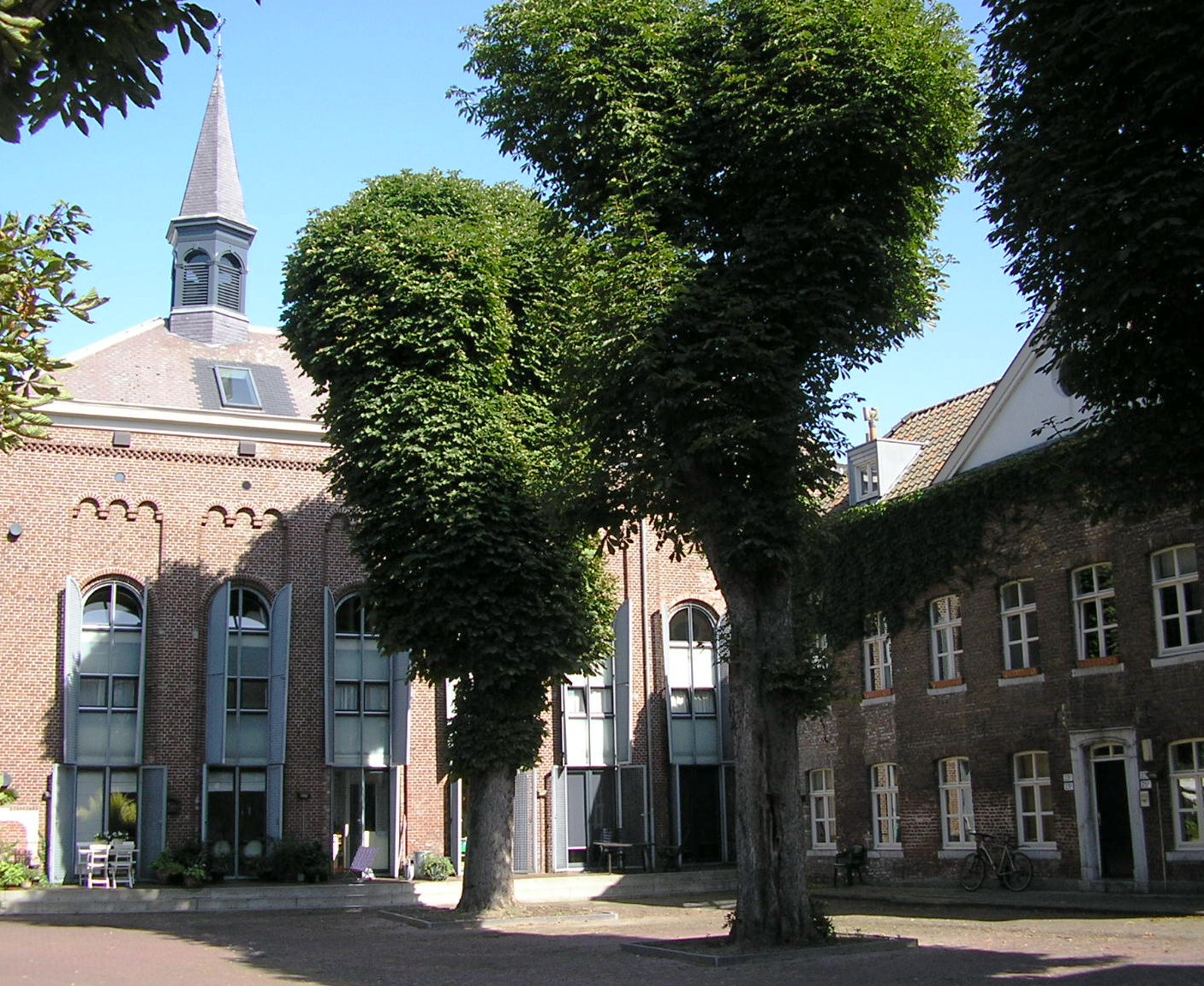 Capucijnengang, reconverted school and chapel, Maastricht, the Netherlands